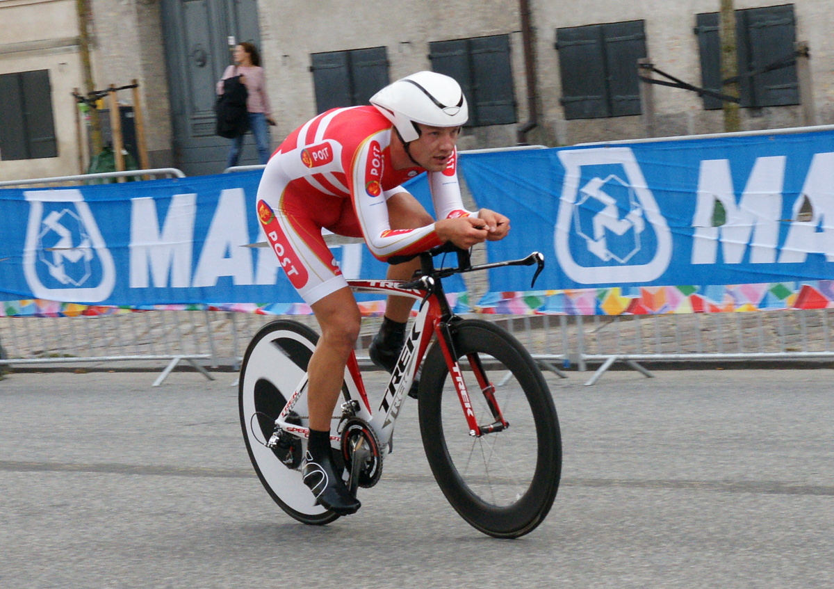 Rasmus Quaade Danish road and track cyclist during 2011 UCI Road World Championships in Copenhagen, Time trial Under 23 Men. Rasmus Quaade finish second, winning the silver-medal